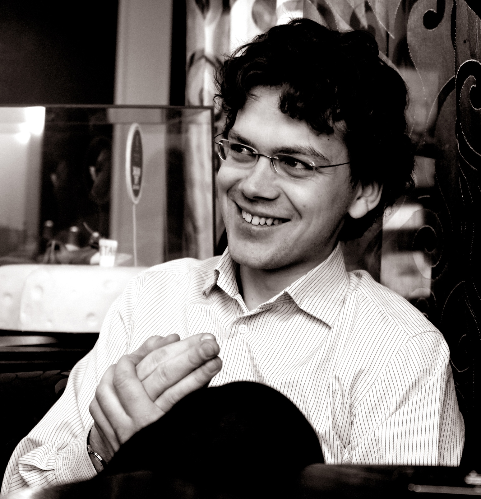 Russian oboist, conductor and composer Andrey Rubtsov 2011.